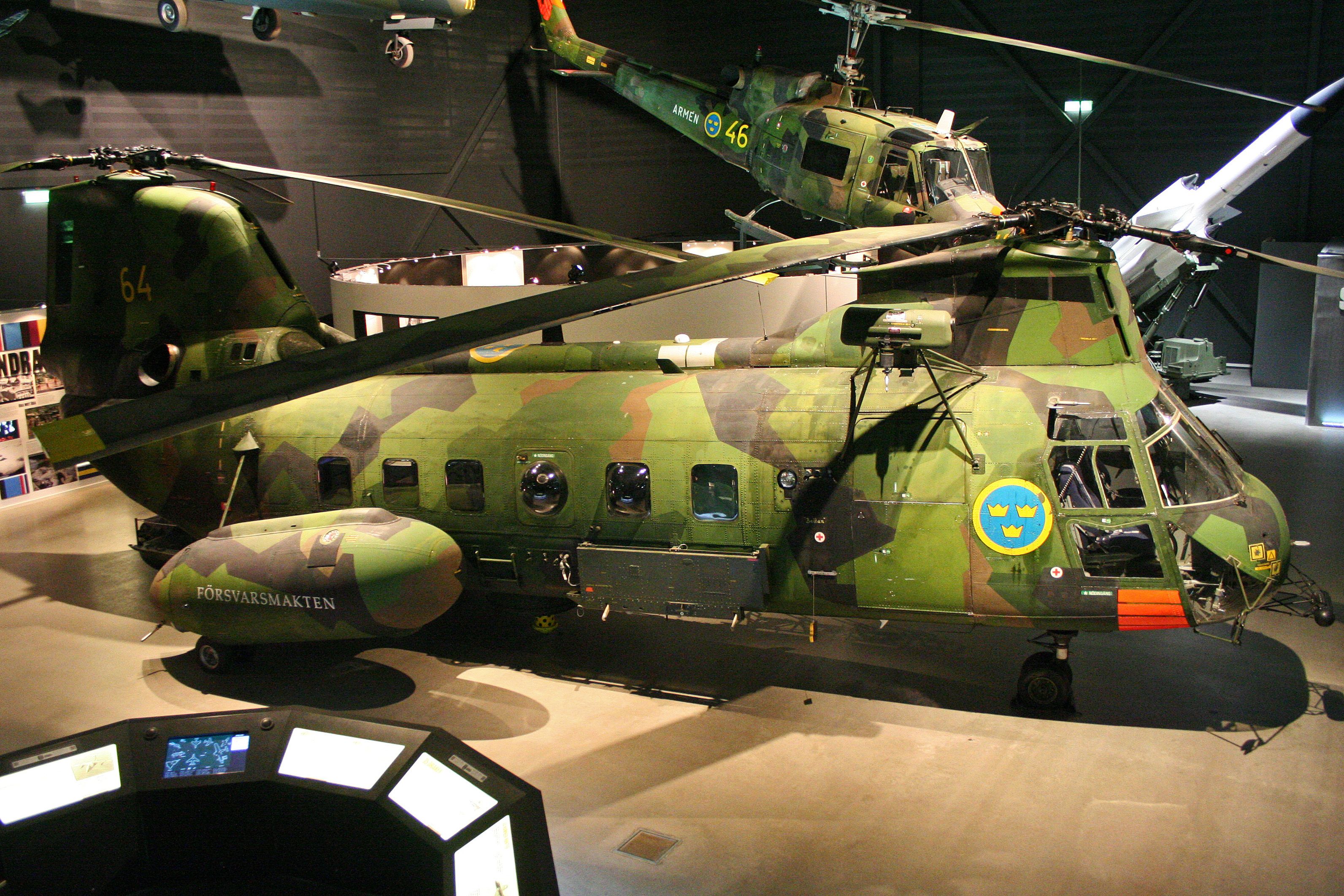 When I last visited in 2010, this Hkp-4 was in the flying display at the airshow! It was converted from one of the prototype Vertol 107s. msn 504. On display in the Cold War Hall at the Flyvapenmuseum, Malmen, Sweden. 04-06-2012